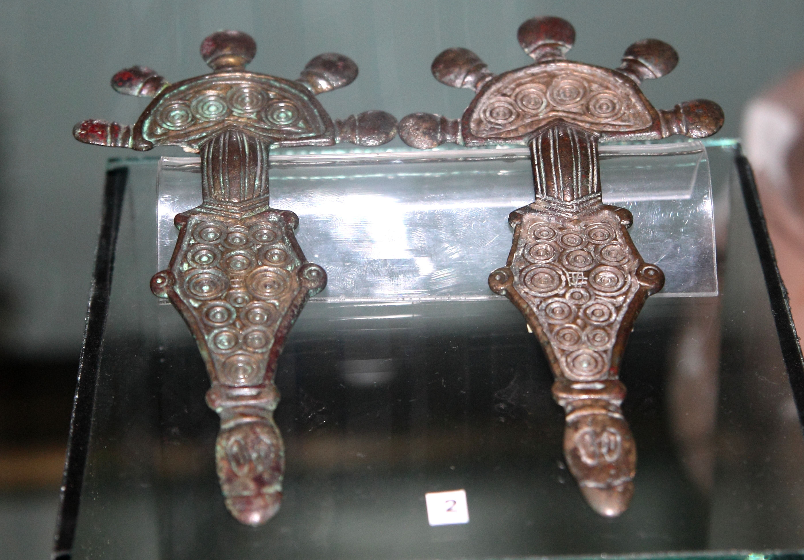 Expozitiile permanente Muzeul de Istorie din Chisinau